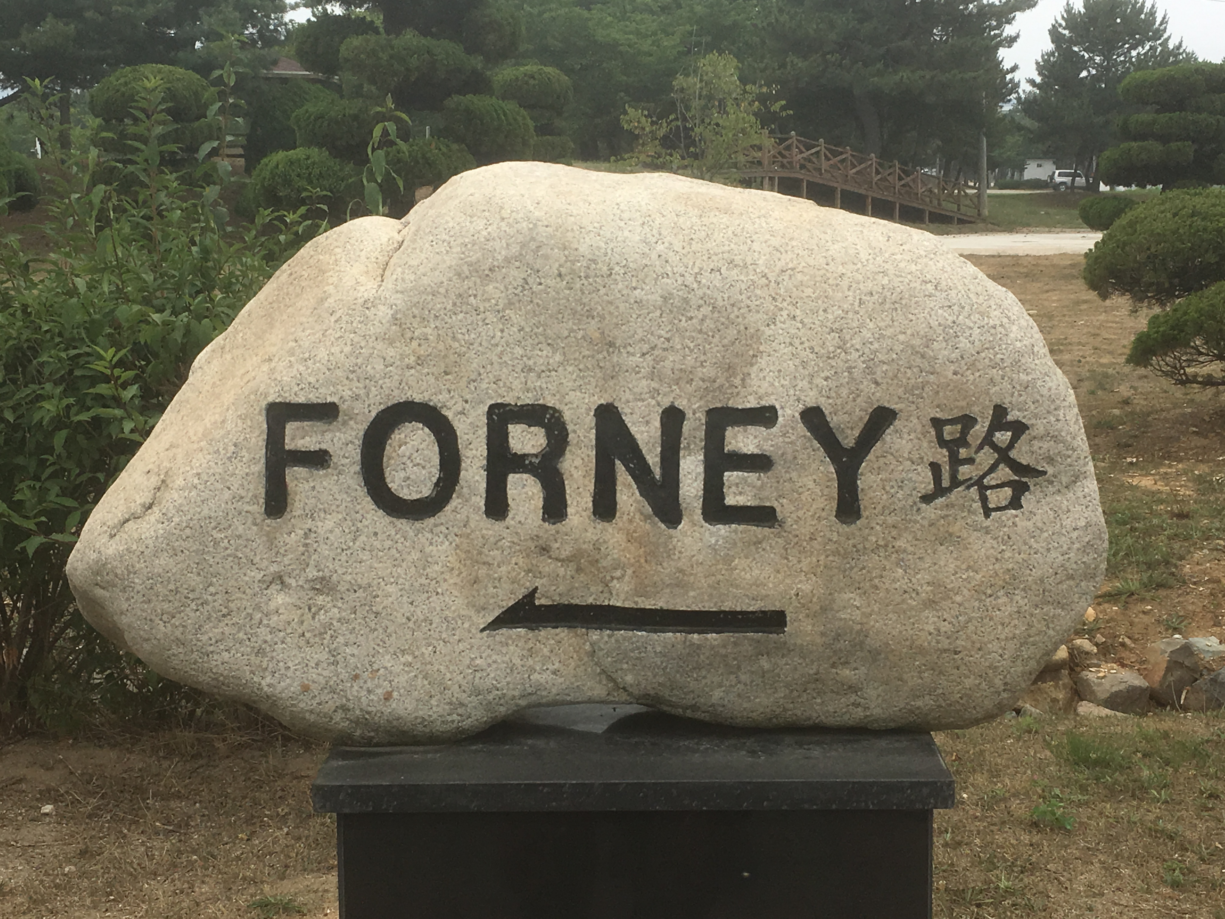 This stone marks the beginning of Forney Road on the ROK Marine Corps base in Pohang, South Korea. It was commemorated in November 2010 at a ceremony involving the base commander and Forney's descendants.